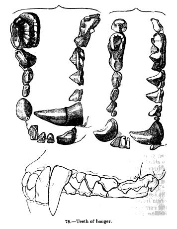 Teeth of a European badger